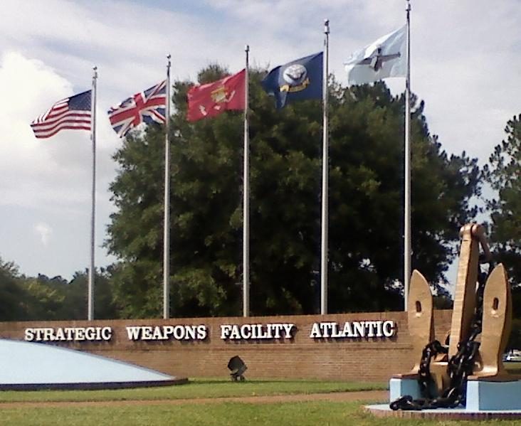 Flag display at Strategic Weapons Facility Atlantic (SWFLANT) on Naval Submarine Base (SUBASE) Kings Bay, GA.